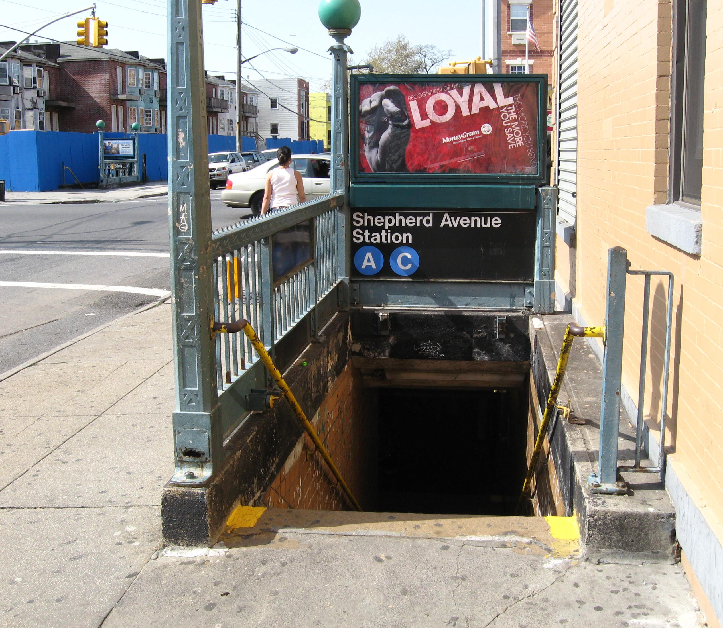 Looking north at southeast stair of Shepherd Avenue (IND Fulton Street Line) Shepherd IND on a sunny afternoon in spring.